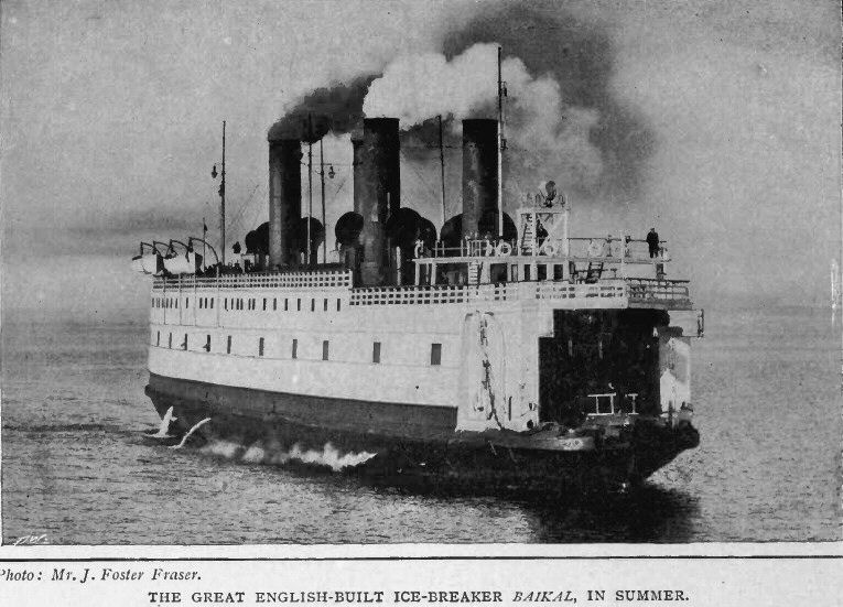 Russian ferry-icebreaker Baikal